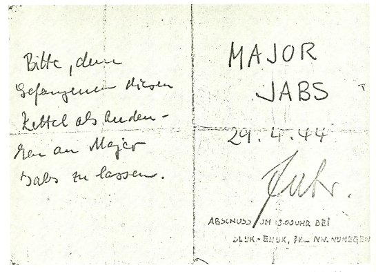 Image of note written by Major Hans-Joachim Jabs for Pilot Officer John Caulton shortly after his capture